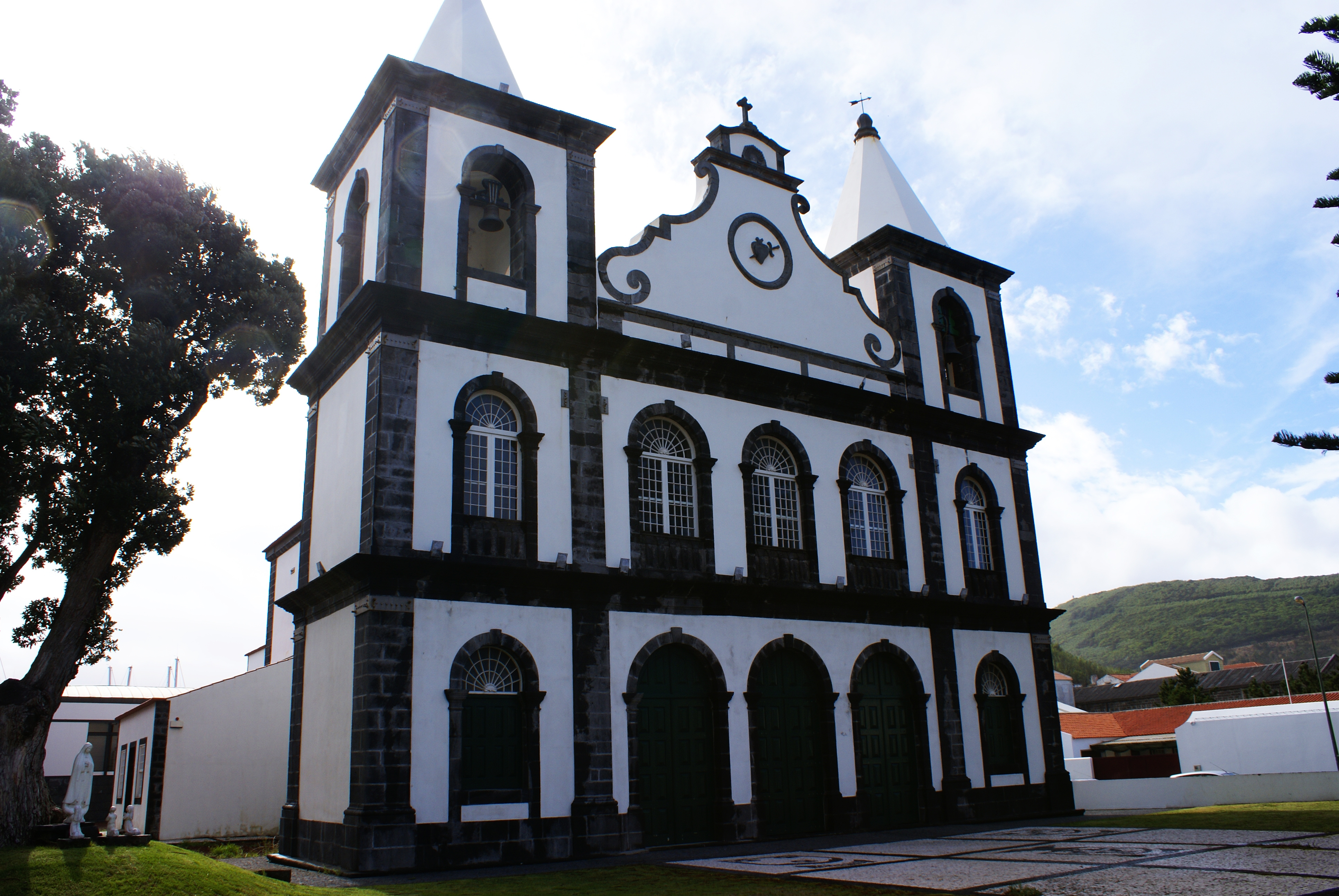 Front façade of the Church of Nossa Senhora das Angústias, Angústias, Horta, Faial (Azores), Portugal